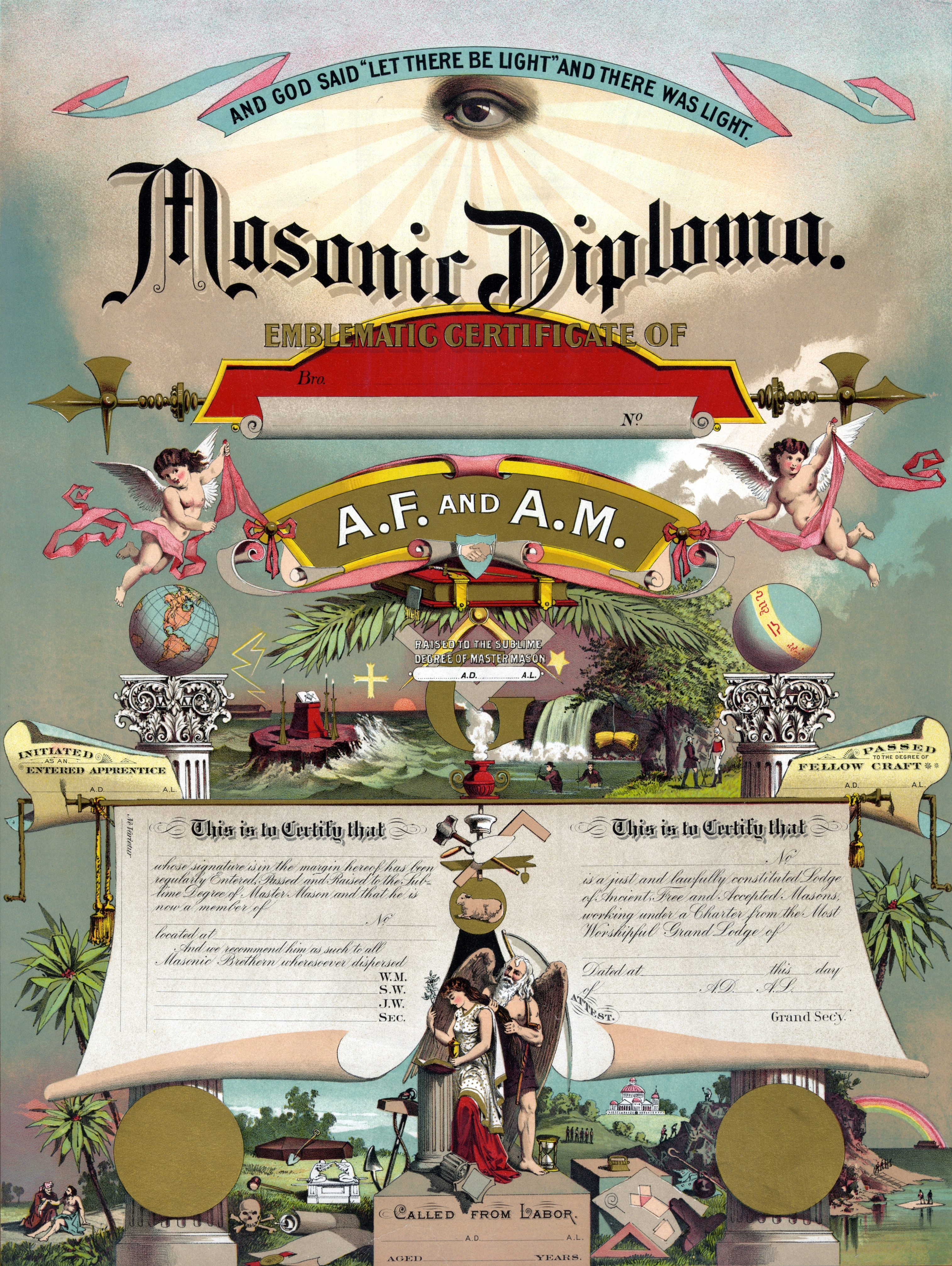 Blank masonic diploma of the American order of Ancient Free and Accepted Masons with numerous masonic symbols. Main caption: "And God said 'Let there be light' and there was light."